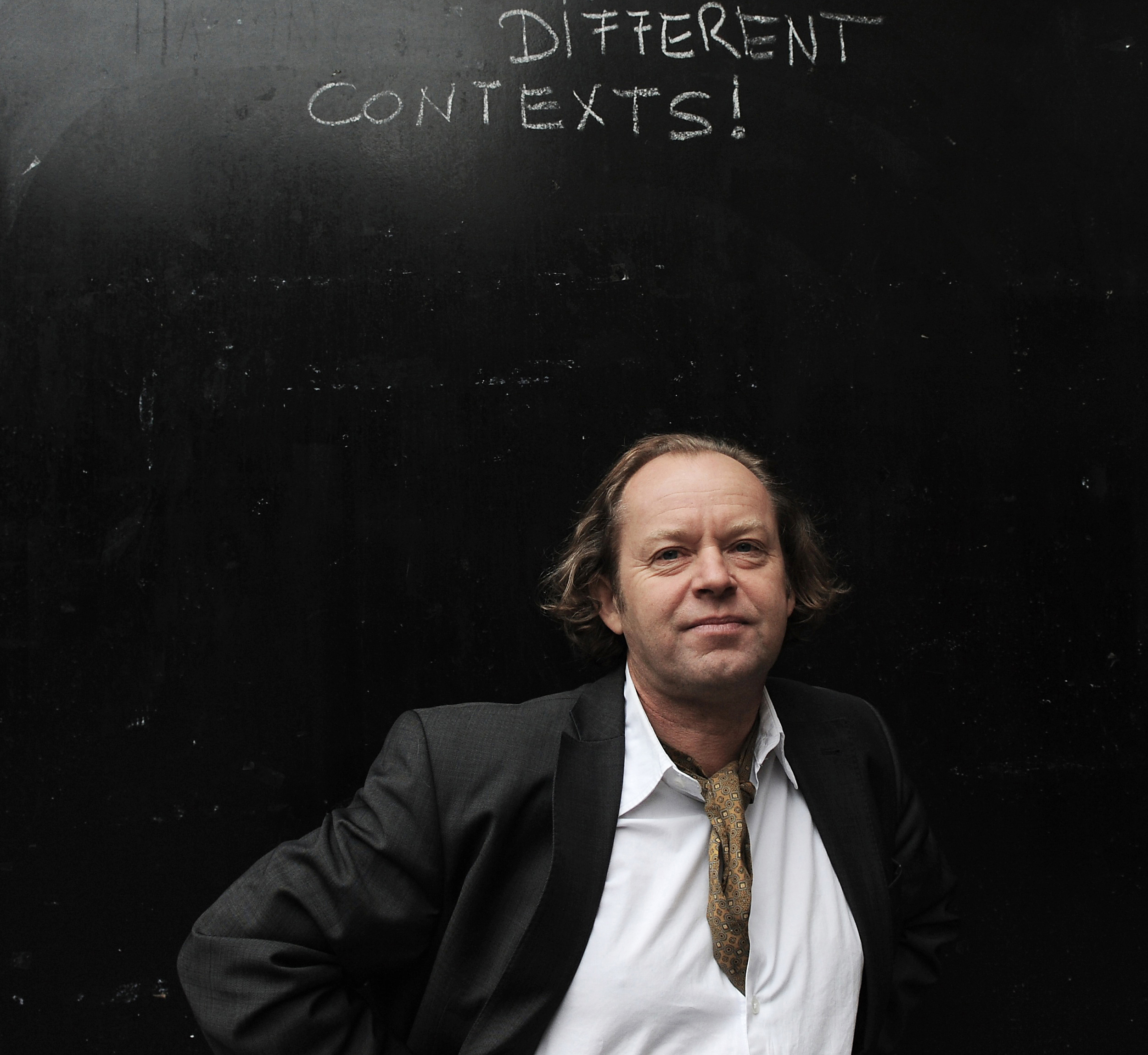 maxRieder work. Personality rights warningAlthough this work is freely licensed or in the public domain, the person(s) shown may have rights that legally restrict certain re-uses unless those depicted consent to such uses. In these cases, a model release or other evidence of consent could protect you from infringement claims.